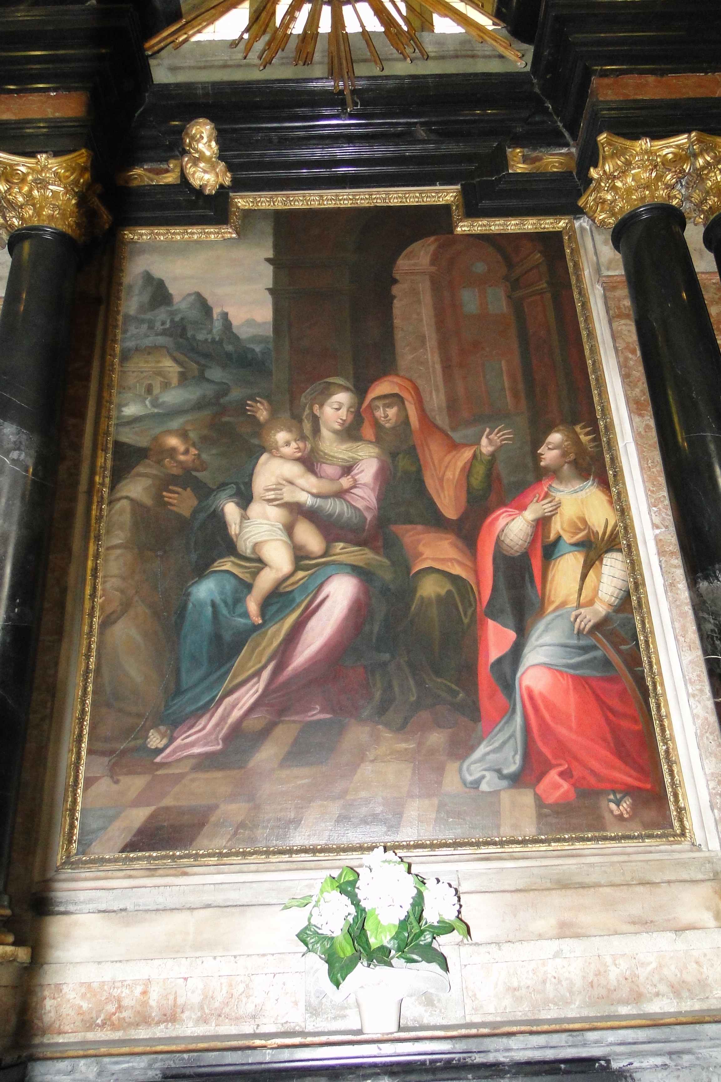 Federico Zuccari: St. Anne - Church of St, Francis from Assisi